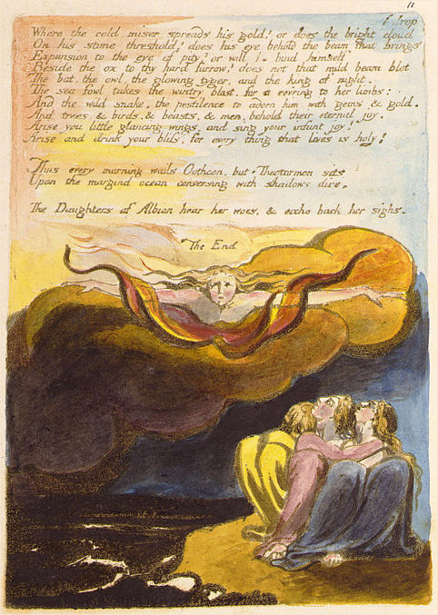 Plate from Visions of the Daughters of Albion, copy G, in the collection of the Houghton Library, Harvard University.